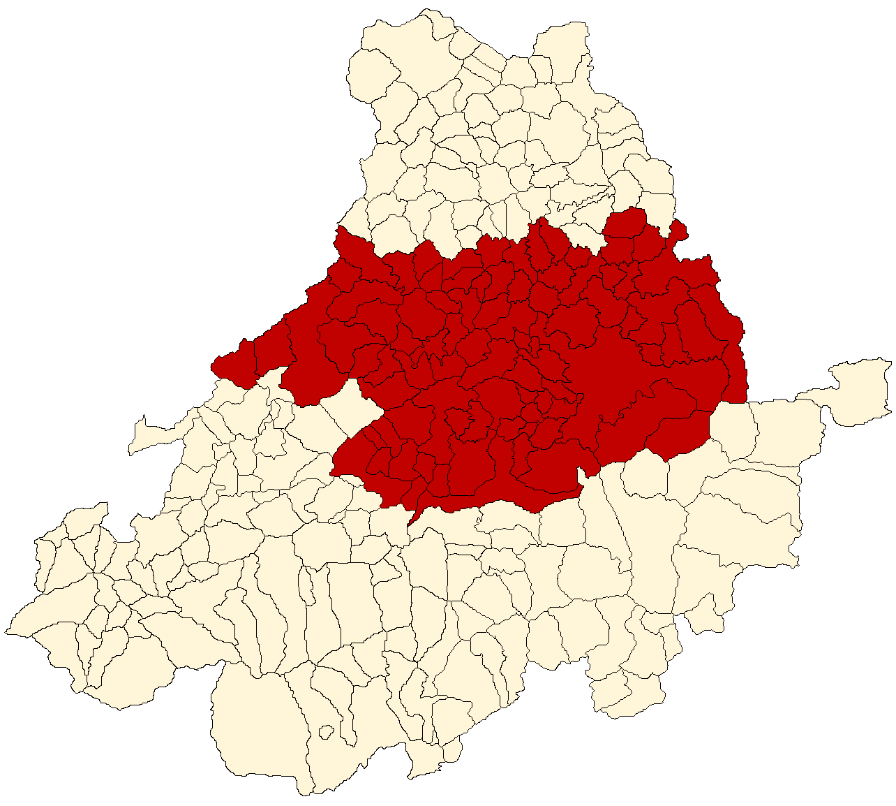 Map of region of Ávila